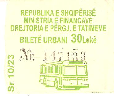 Albanian bus ticket 2010